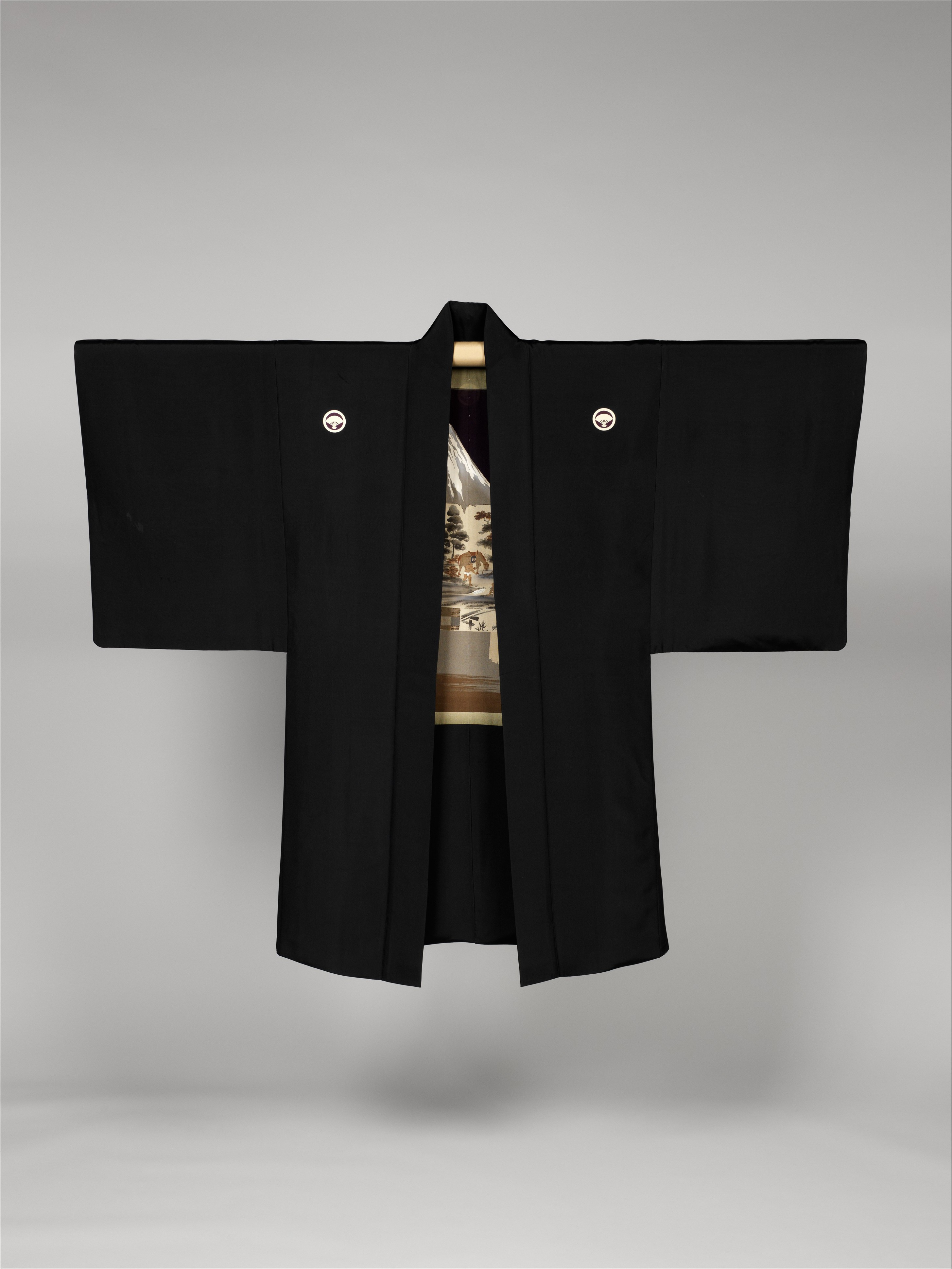 Japan; Man's formal jacket (Haori); Costumes